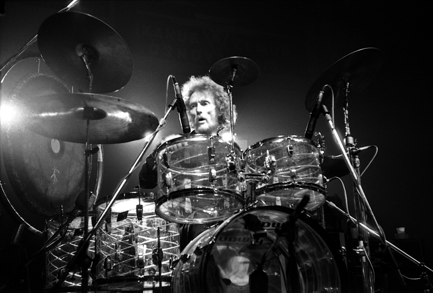 Ginger Baker's Energy band, 21st March 1980. Zemun, Yugoslavia (now Serbia)